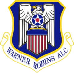 Unit Logo